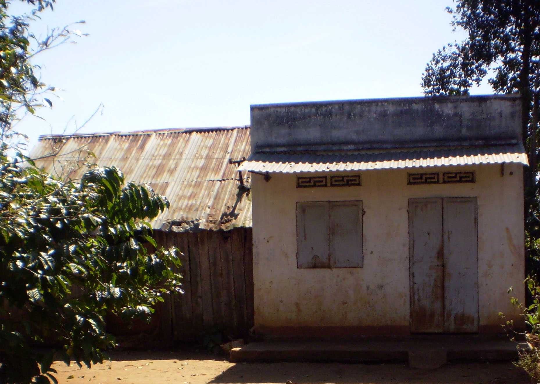 A house that has been built under the Program 134 by Vietnamese Government